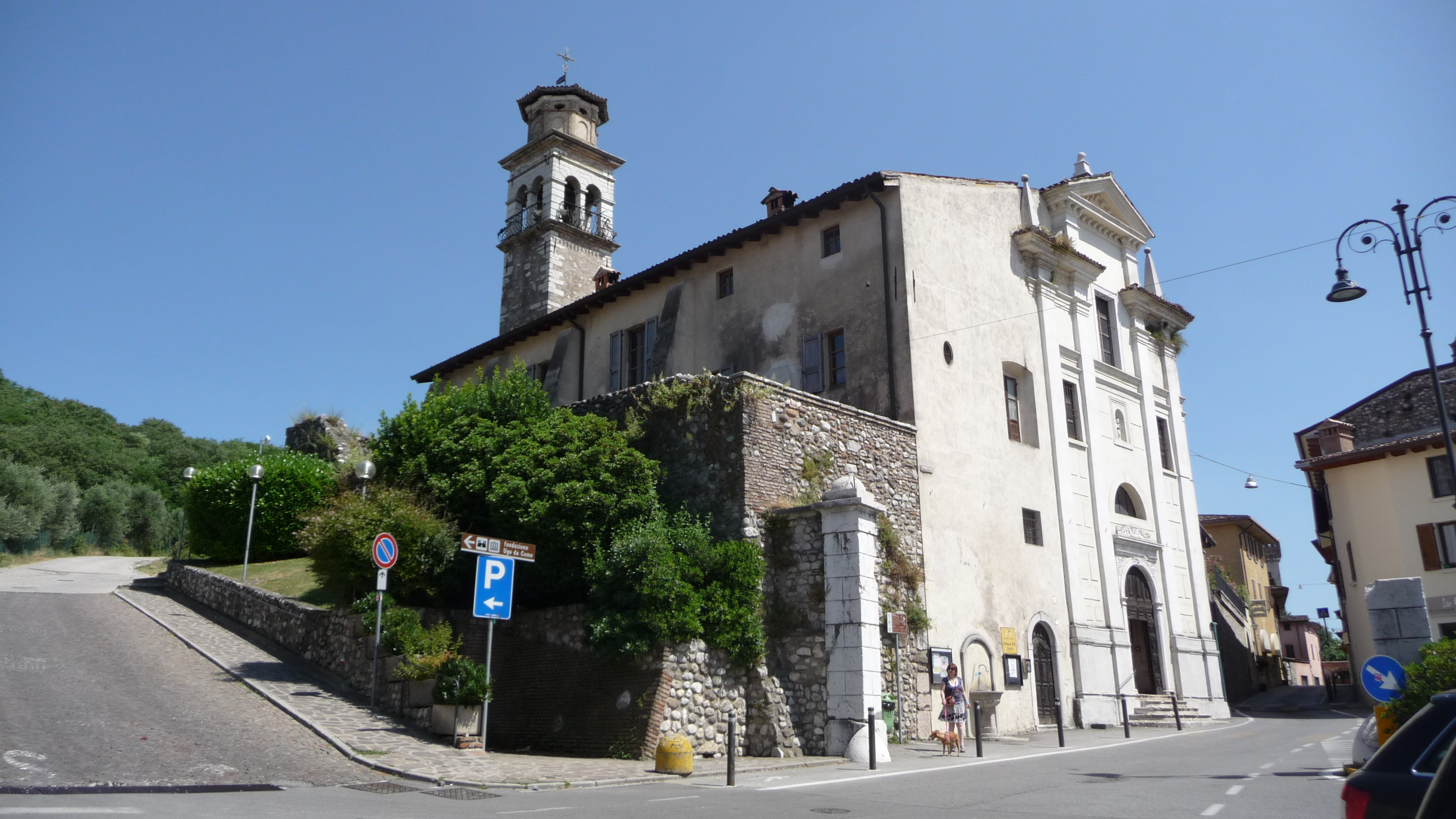 Lonato del Garda, Church of Our Lady of Corlo